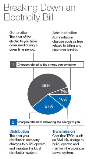 This is a breakdown of a typical residential electricity bill in Alberta, Canada. The bill is seperated into the percentage associated with generation, transmission, distribution, and administration costs.